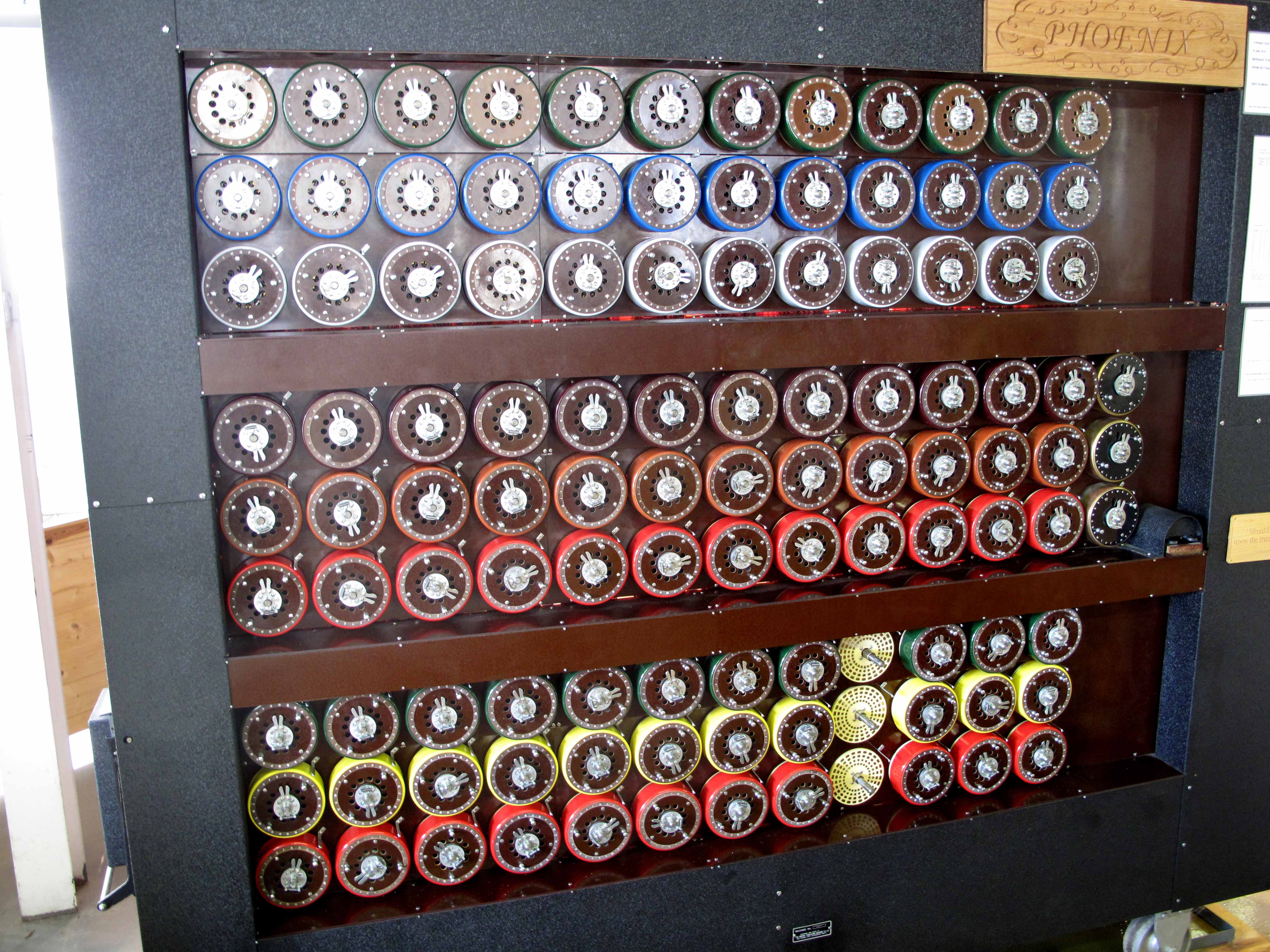 Front view of the working rebuilt bombe at Bletchley Park.